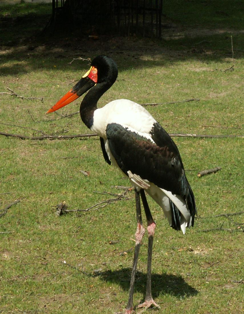 A Saddle Billed Stork (Ephippiorhynchus senegalensis) in ZOO in Kraków (Cracow), Poland